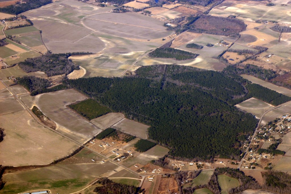 This is a photo of a dozen or more Carolina bays. This is just north-west of Red Springs, North Carolina, at latitude 34.820885, longitude -79.213057.